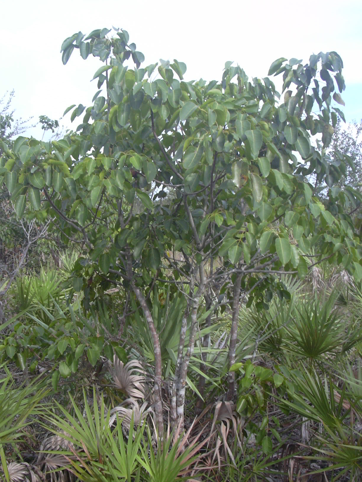 Metopium toxiferum, with Coccothrinax argentea in understorey. Location: Florida, Deering Park